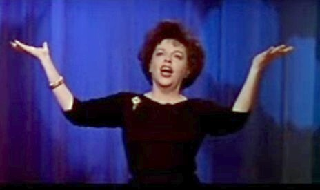 Cropped screenshot of Judy Garland from the trailer for the film I Could Go On Singing